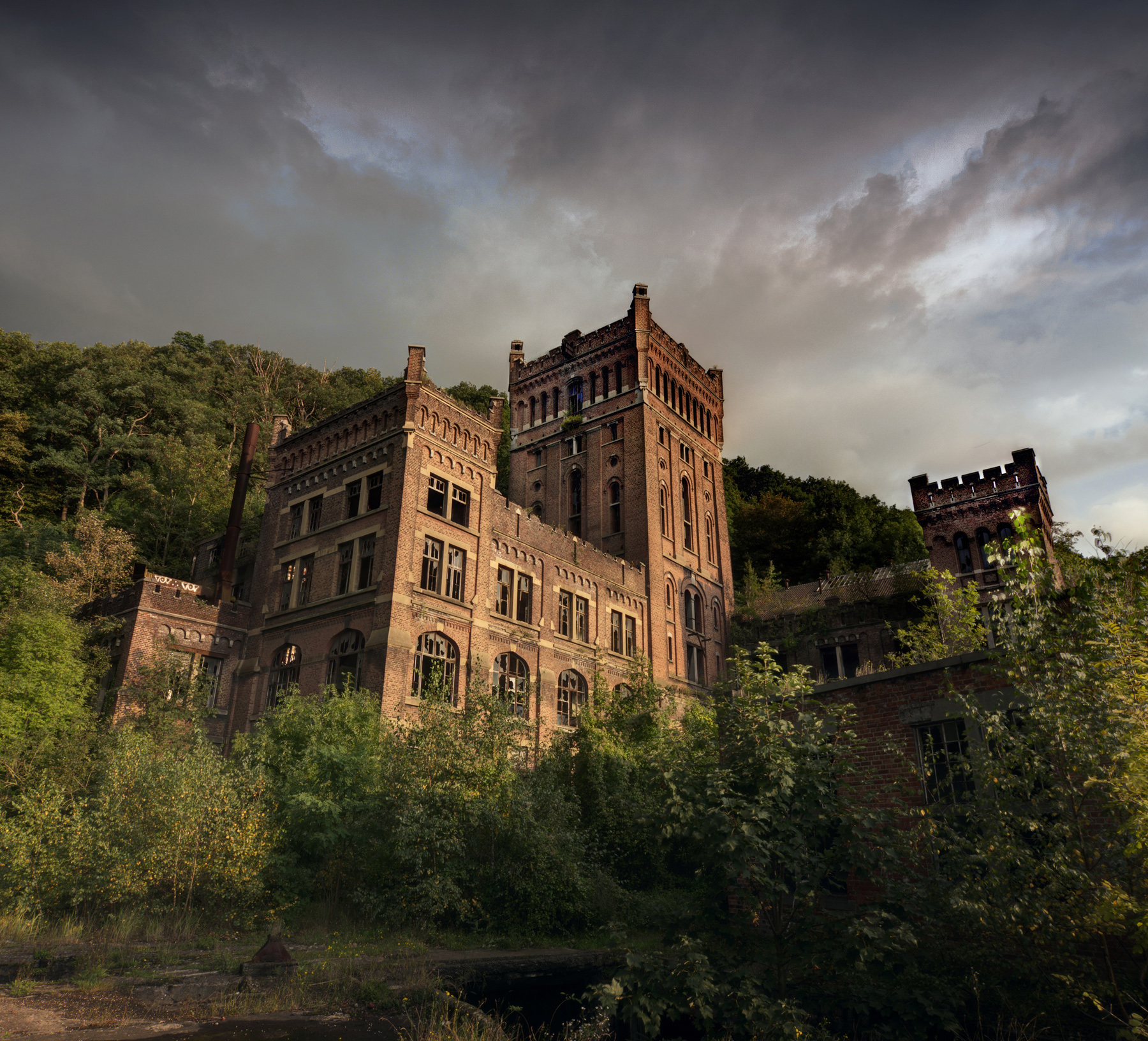 The main building at the Coal mine of Hasard de Cheratte, Liege, Belgium.